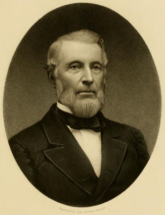 Portrait of New York state assemblyman Elias Root